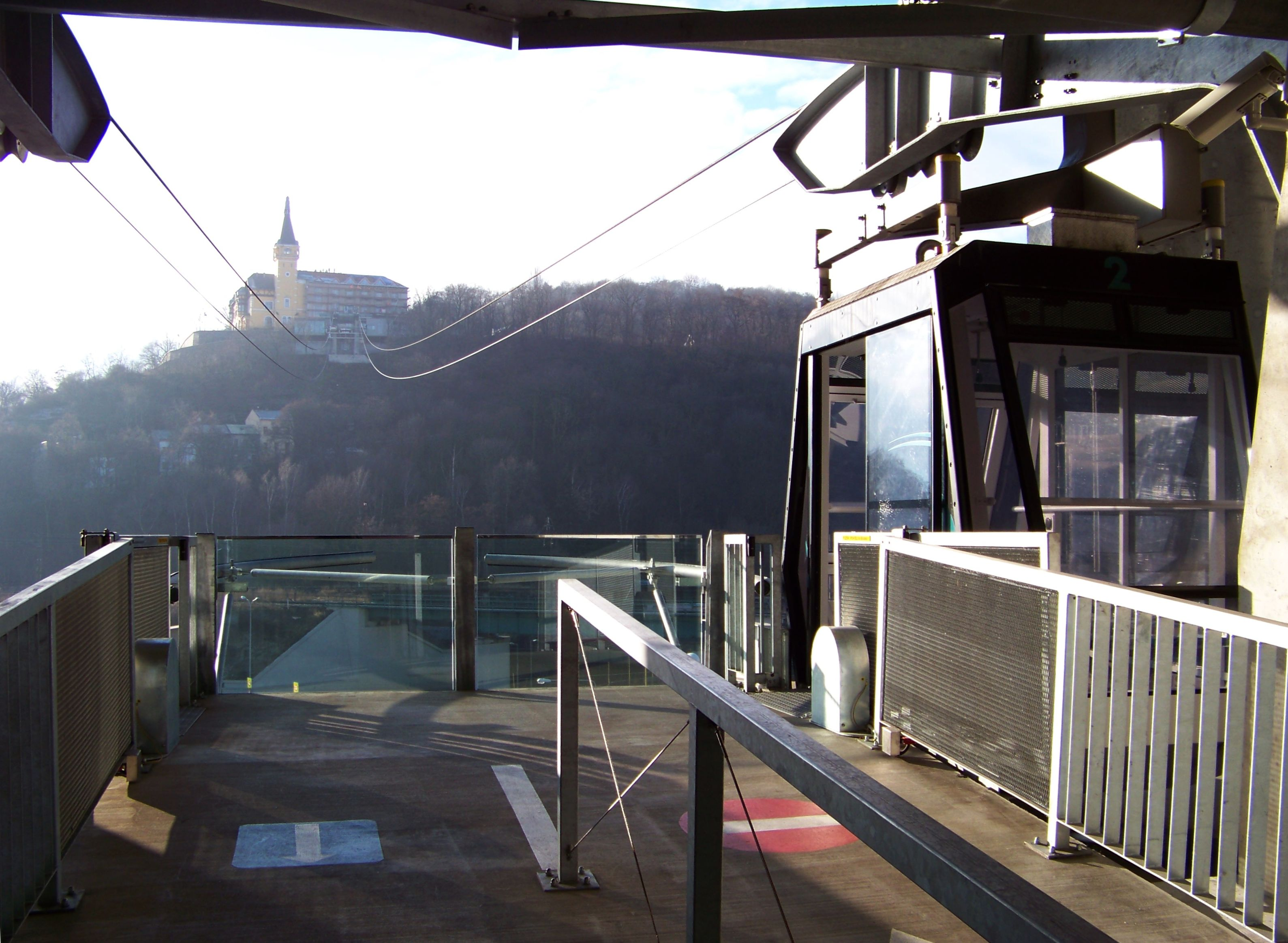 Ústí nad Labem, the Czech Republic. Větruše Cableway, a view from OC Forum to Větruše. - OpenStreetMap(Info)